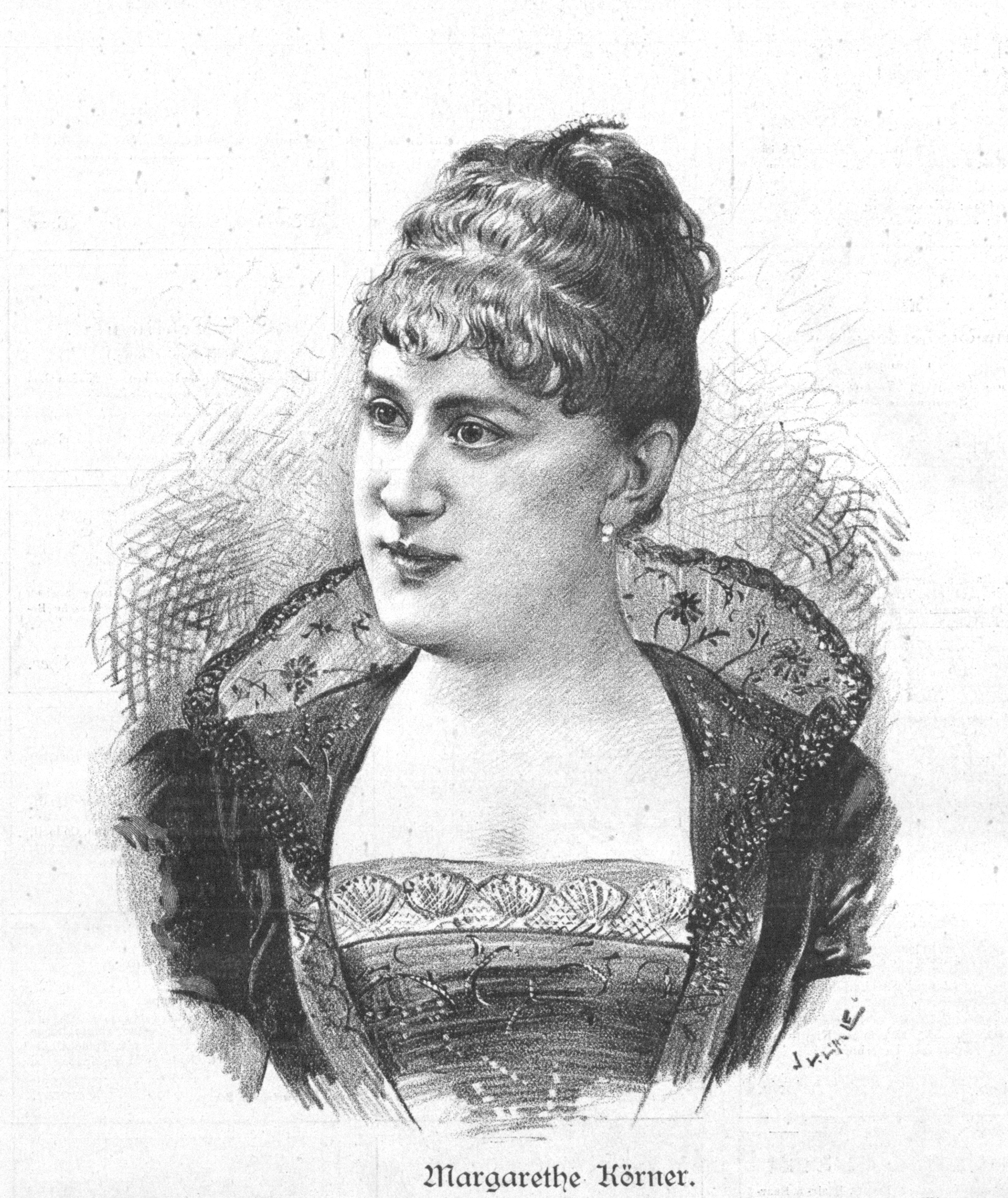 Portrait of Margarethe Otto-Körner (1868-1937), German actress